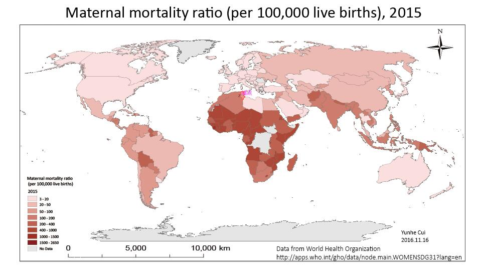 maternal mortality ratio, 2015